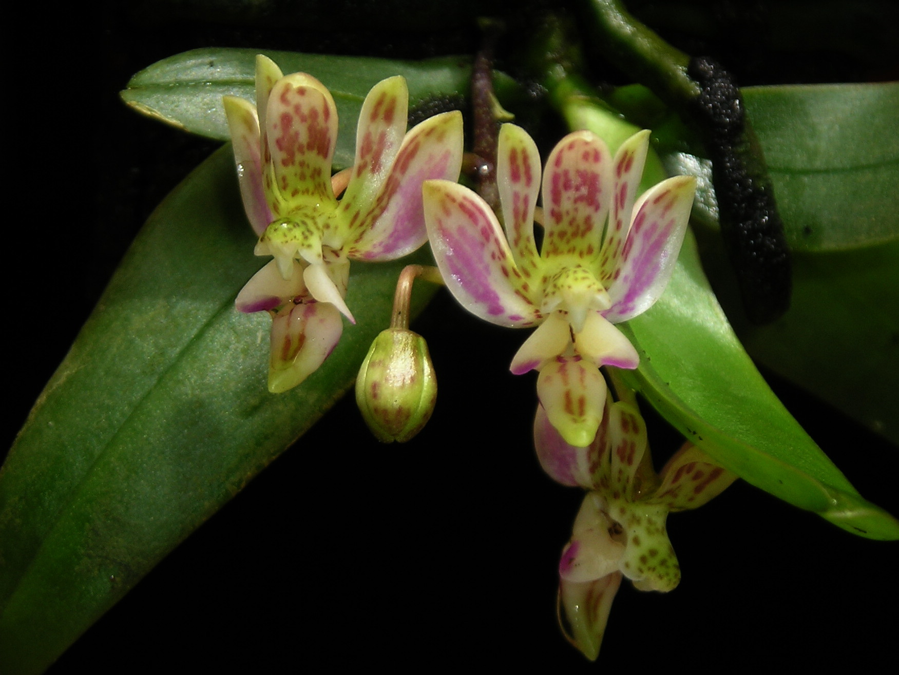 Phalaenopsis finleyi, flower